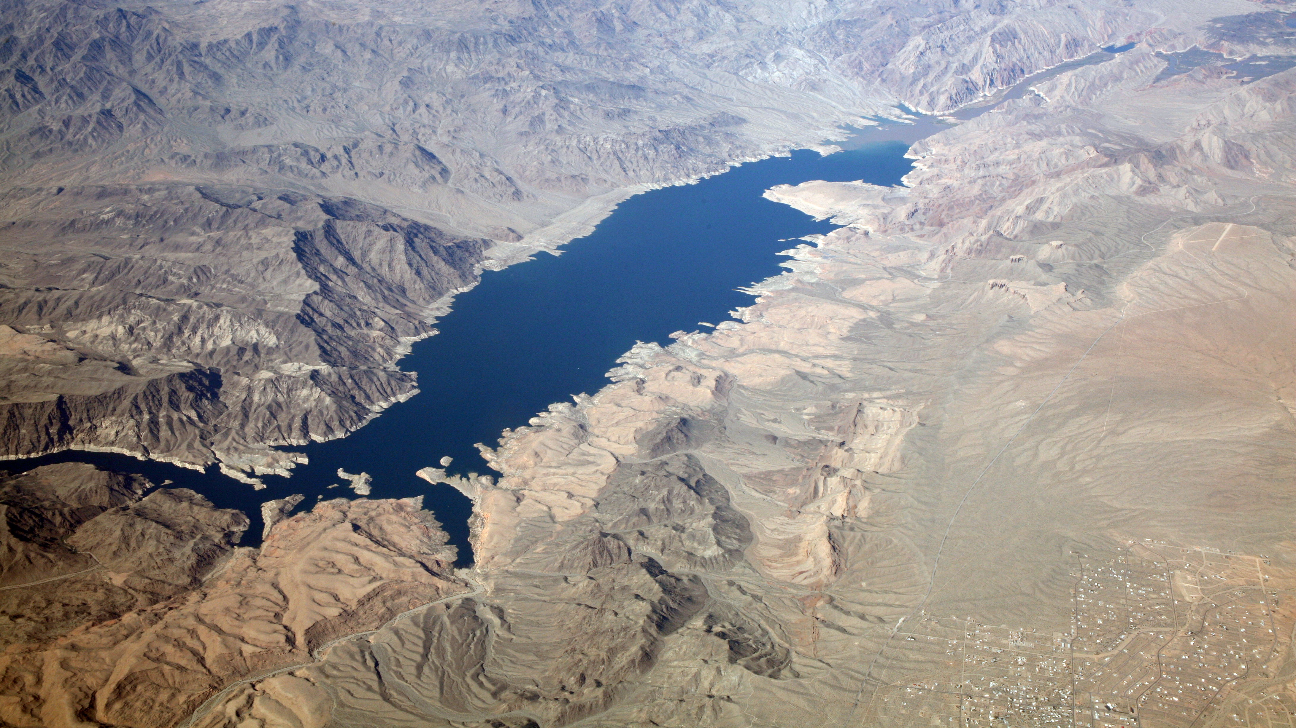 Pearce Ferry & upper Lake Mead. Hualapai Res. top right, Meadview subdivisions lower right.